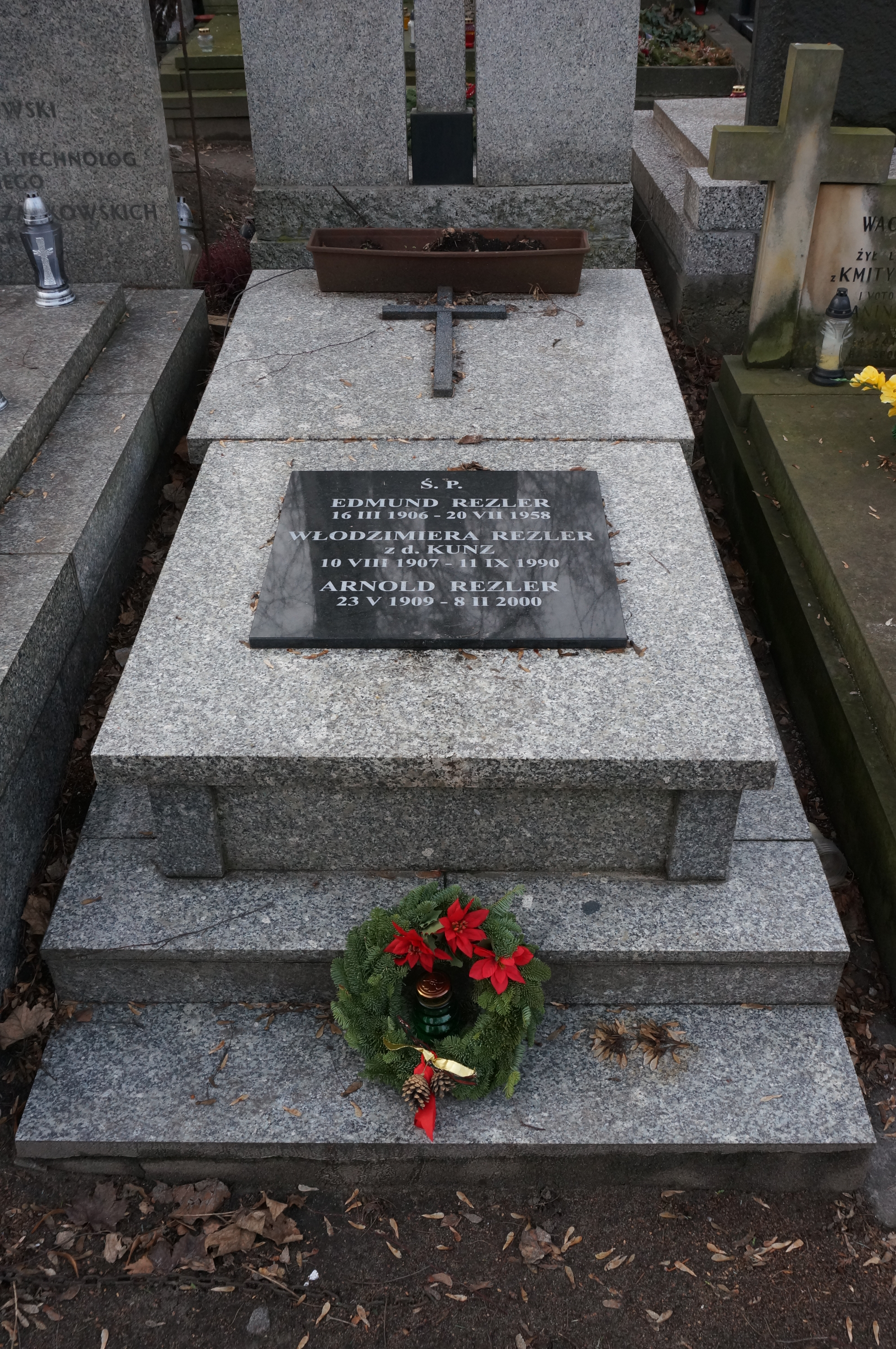 The grave of Arnold Rezler at the Powązki Cemetery (section 154c, row 2, grave 17)